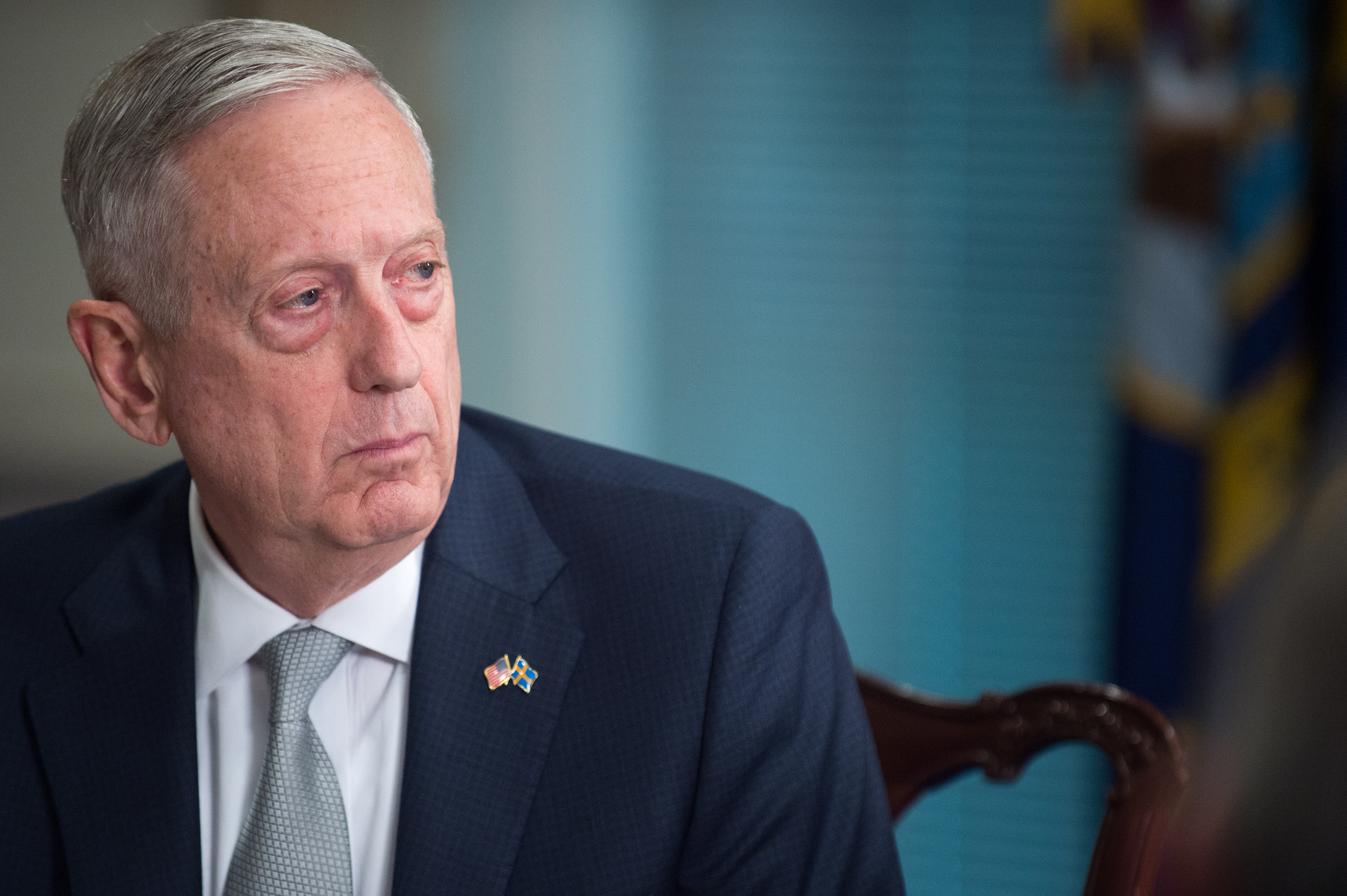 Defense Secretary Jim Mattis speaks with the press after remarks in a meeting with Sweden’s Minister for Defence Peter Hultqvist at the Pentagon in Washington, D.C., May 18, 2017. (DOD photo by U.S. Army Sgt. Amber I. Smith)